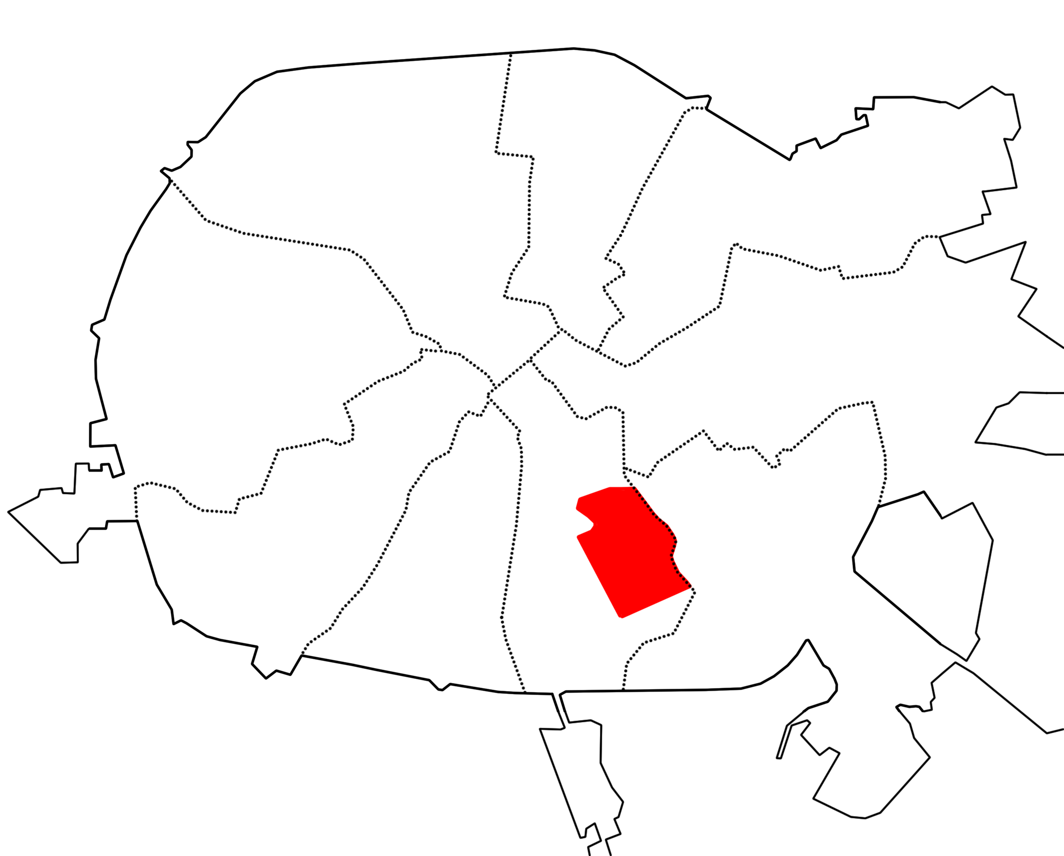 Sierabranka (Serebryanka) microdistrict in Minsk, Belarus